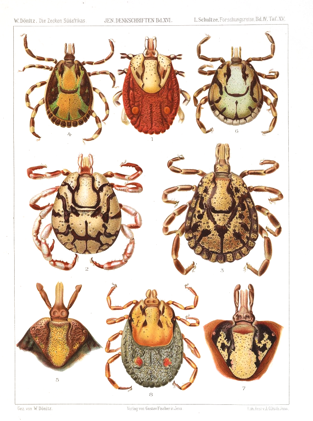 Ticks - illustrated by Wilhelm Donitz - 1 Hyalomma hippopotamense (female) 2 (male) 3 Amblyomma marmoreum (male) 4 Amblyomma variegatum (male) 5 Amblyomma variegatum - female 6 Amblyomma hebraeum (male) 7 Amblyomma hebraeum (female) 8 Dermacentor rhinocerinus